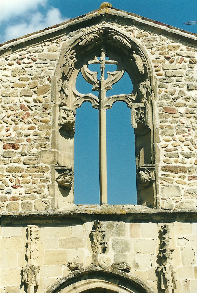 old church : Remaining facade after roof collapse (classified MH)